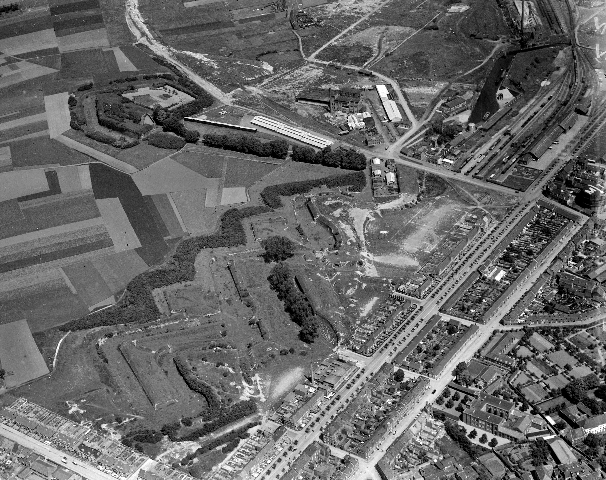 Aerial photograph of Maastricht, The Netherlands